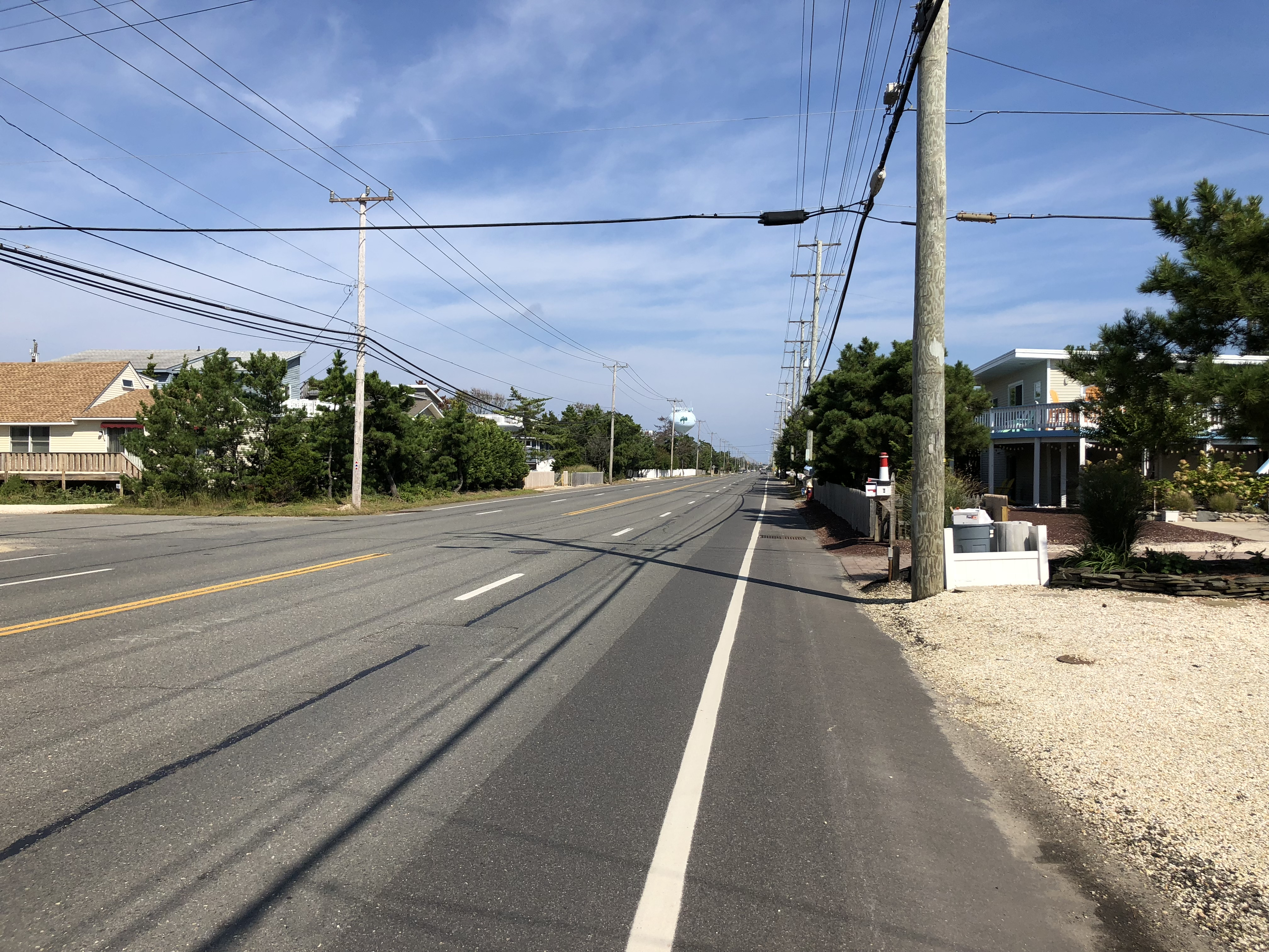 View north along Ocean County Route 607 (Long Beach Boulevard) at Union Avenue in Harvey Cedars, Ocean County, New Jersey